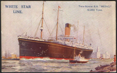 SS Medic (1899), White Star Line (in 1928 converted to whaling factory Hektoria)